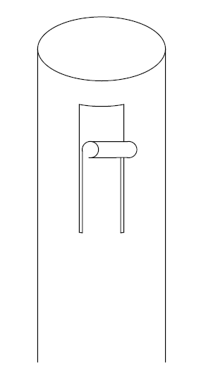 organ pipe with tuning slot (Expression)